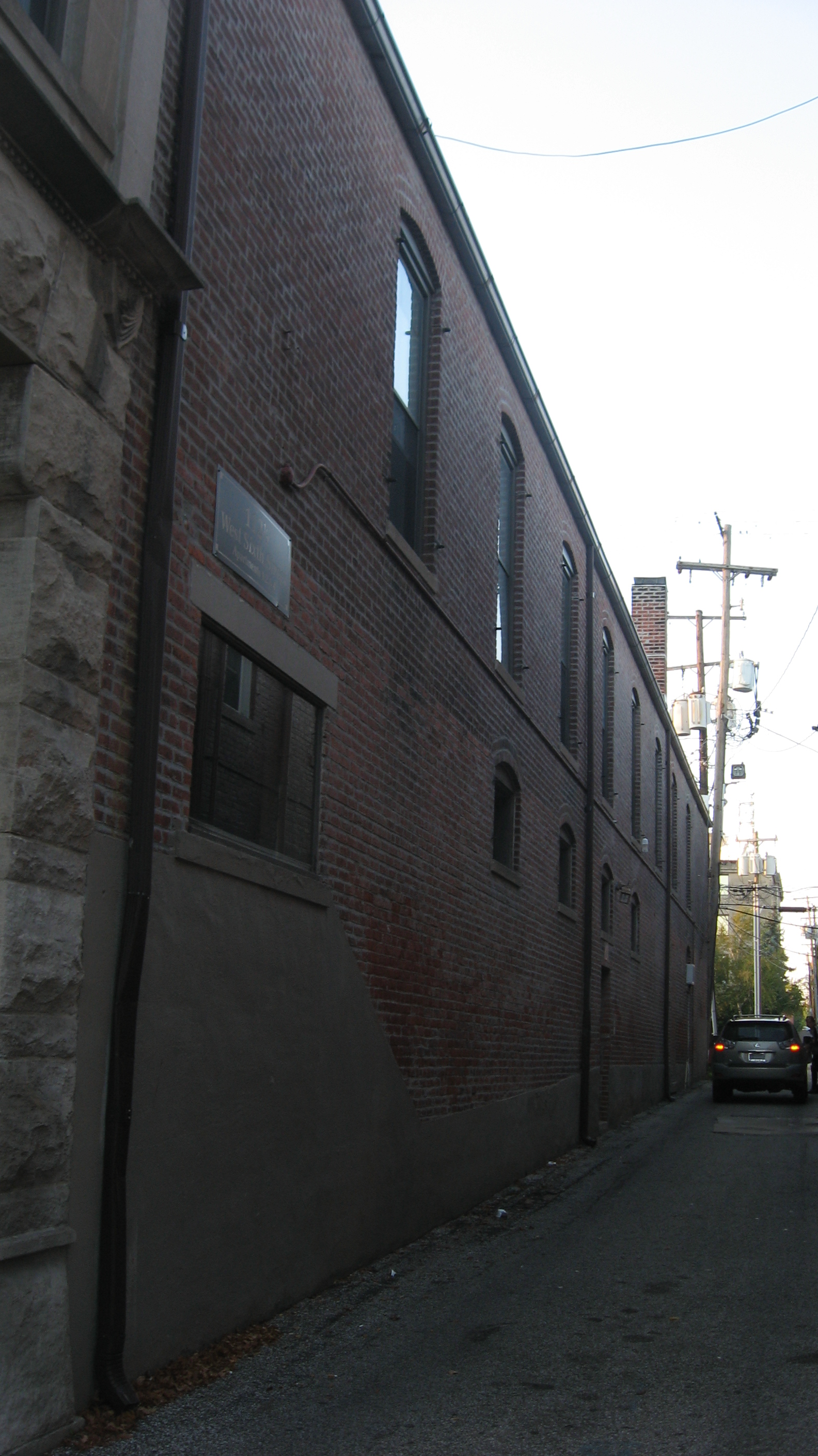 Eastern side of the Wicks Building, located at 116 W. Sixth Street in downtown Bloomington, Indiana, United States. Built in 1915, it is listed on the National Register of Historic Places, and it is part of the Register-listed Courthouse Square Historic District.